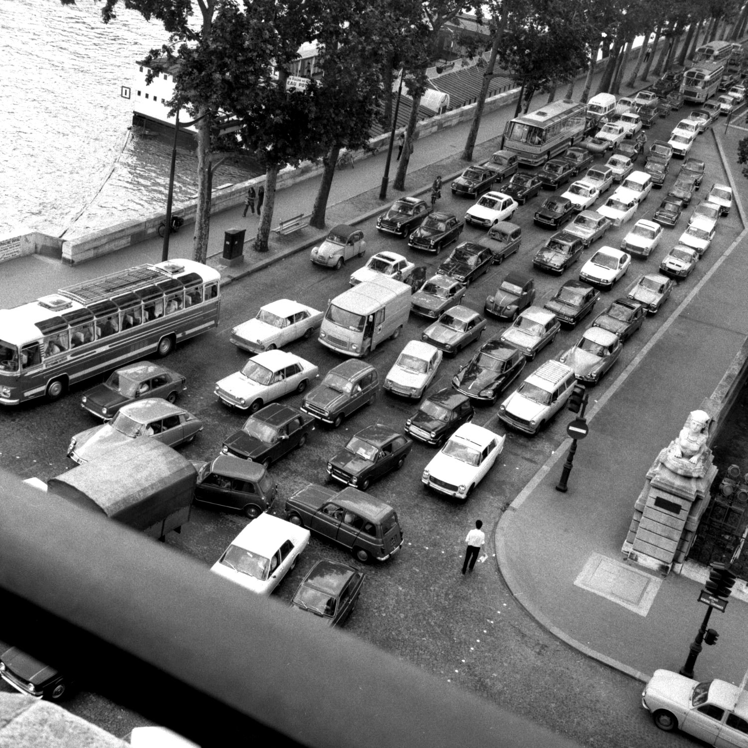 from the Pavillon de Flore of the Louvre – negative rescanned without cropping